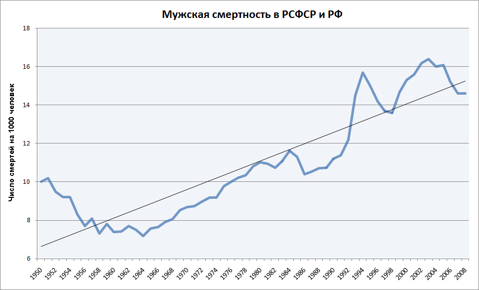 Chart of the male death rate in Russia from 1950-2008. Data based on [1], [2]